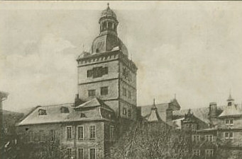 Gymnasium Theodorianum in Paderborn, Germany,1918